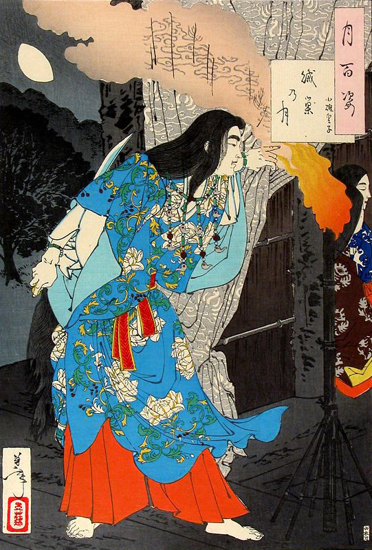 Moon of the enemy's lair - Yamato Takeru as Little Prince Usu